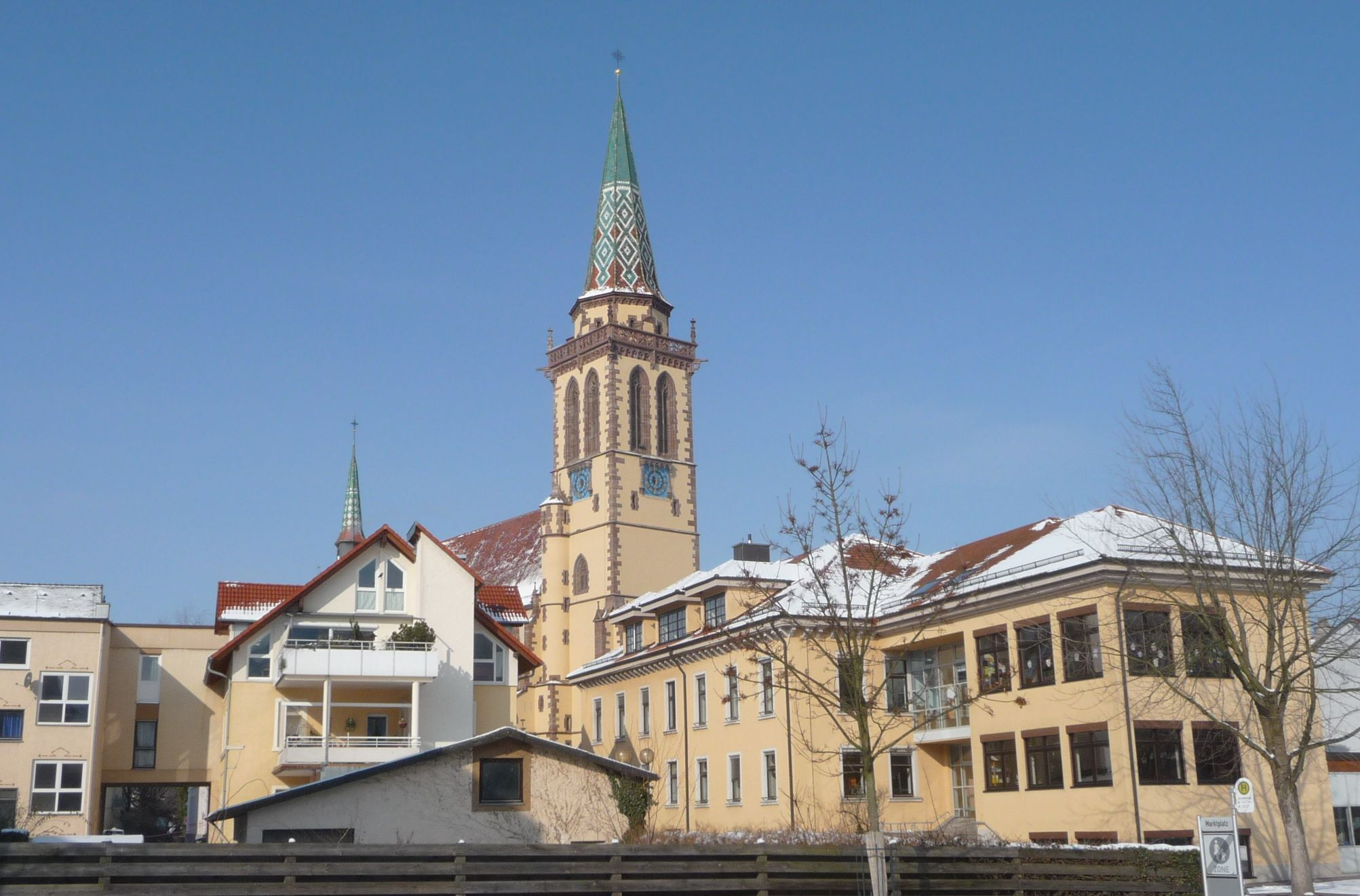 Sinzheim, Germany